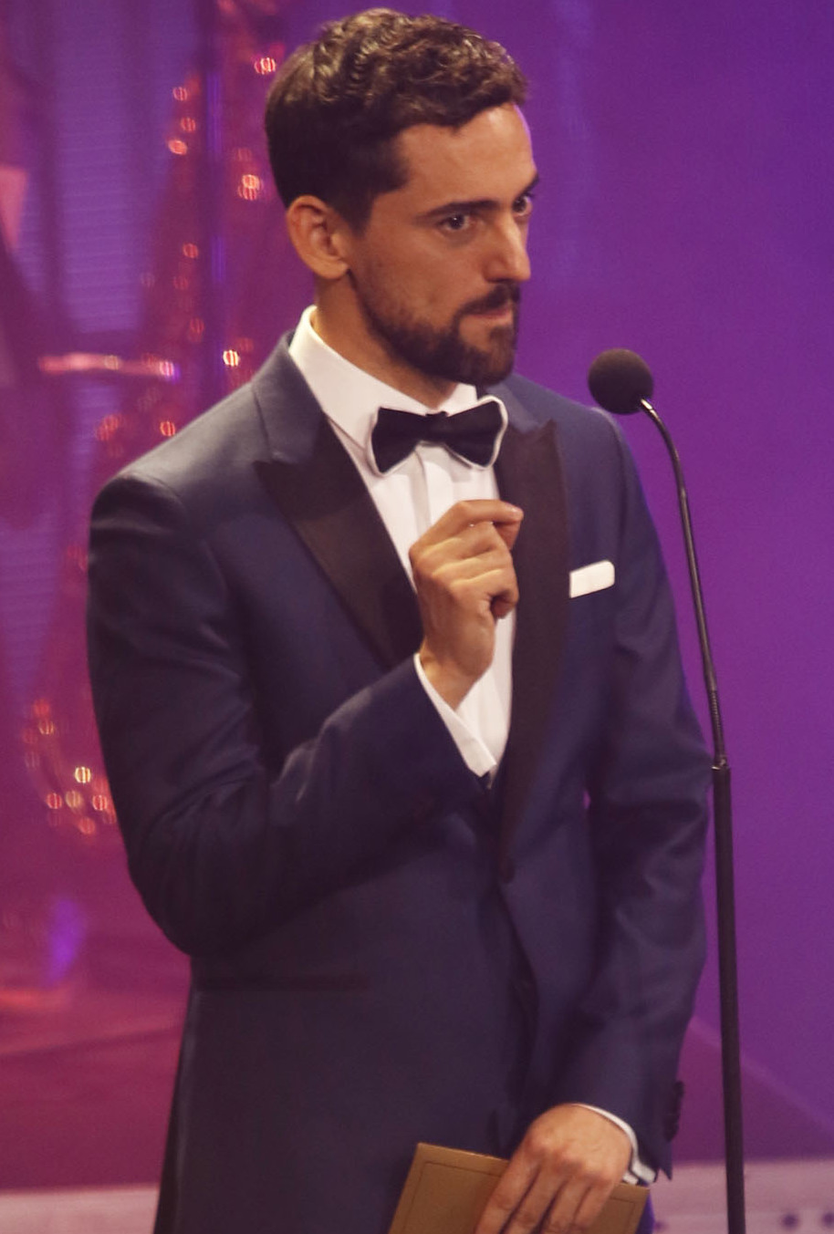 Luis Gerardo Méndez in 2017